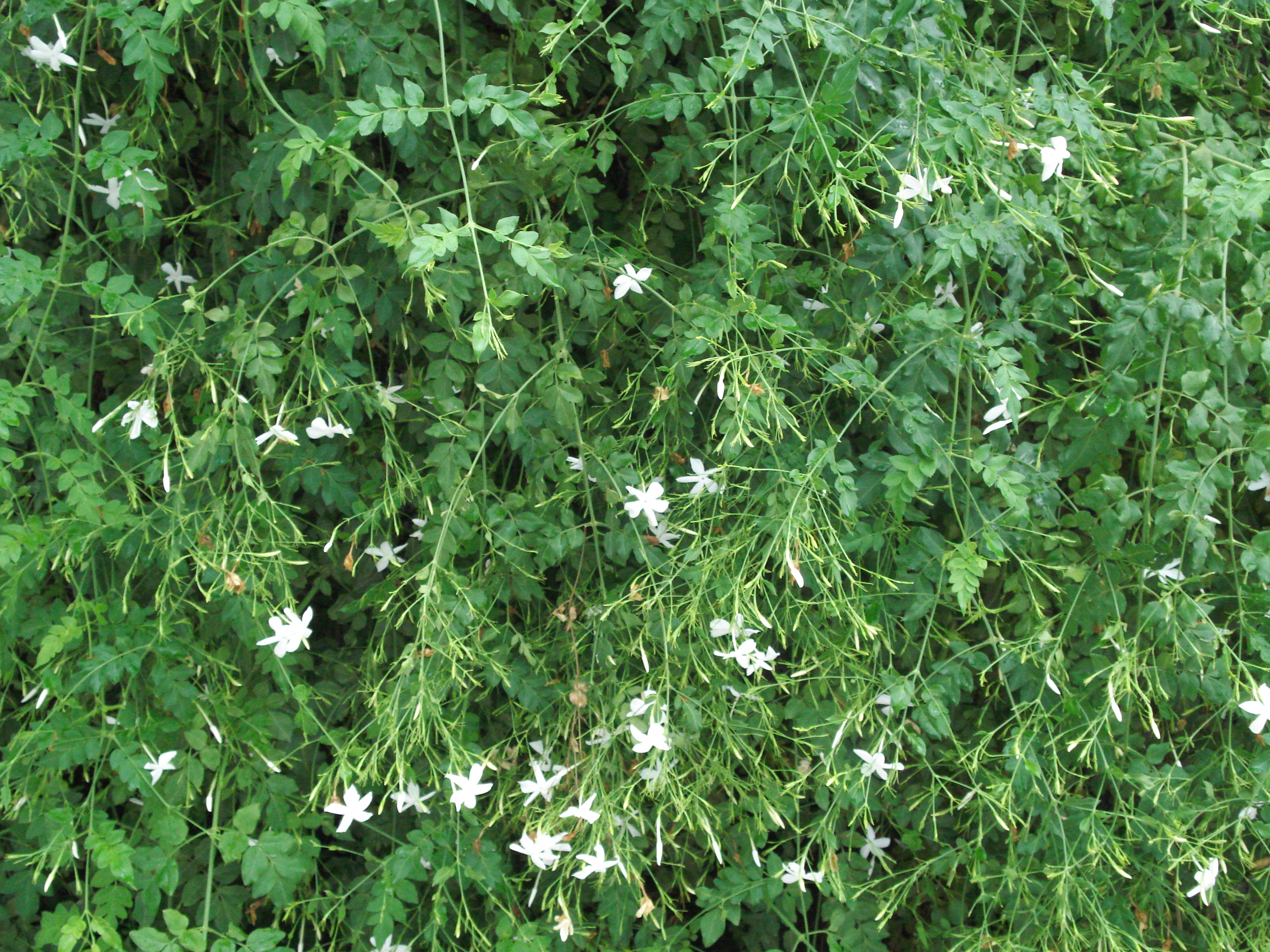 Description: jasmine Date:18-06-14 source:own work permission:own work Author: manavatha Other information Description: jasmine Date:18-06-14 source:own work permission:own work Author: manavatha